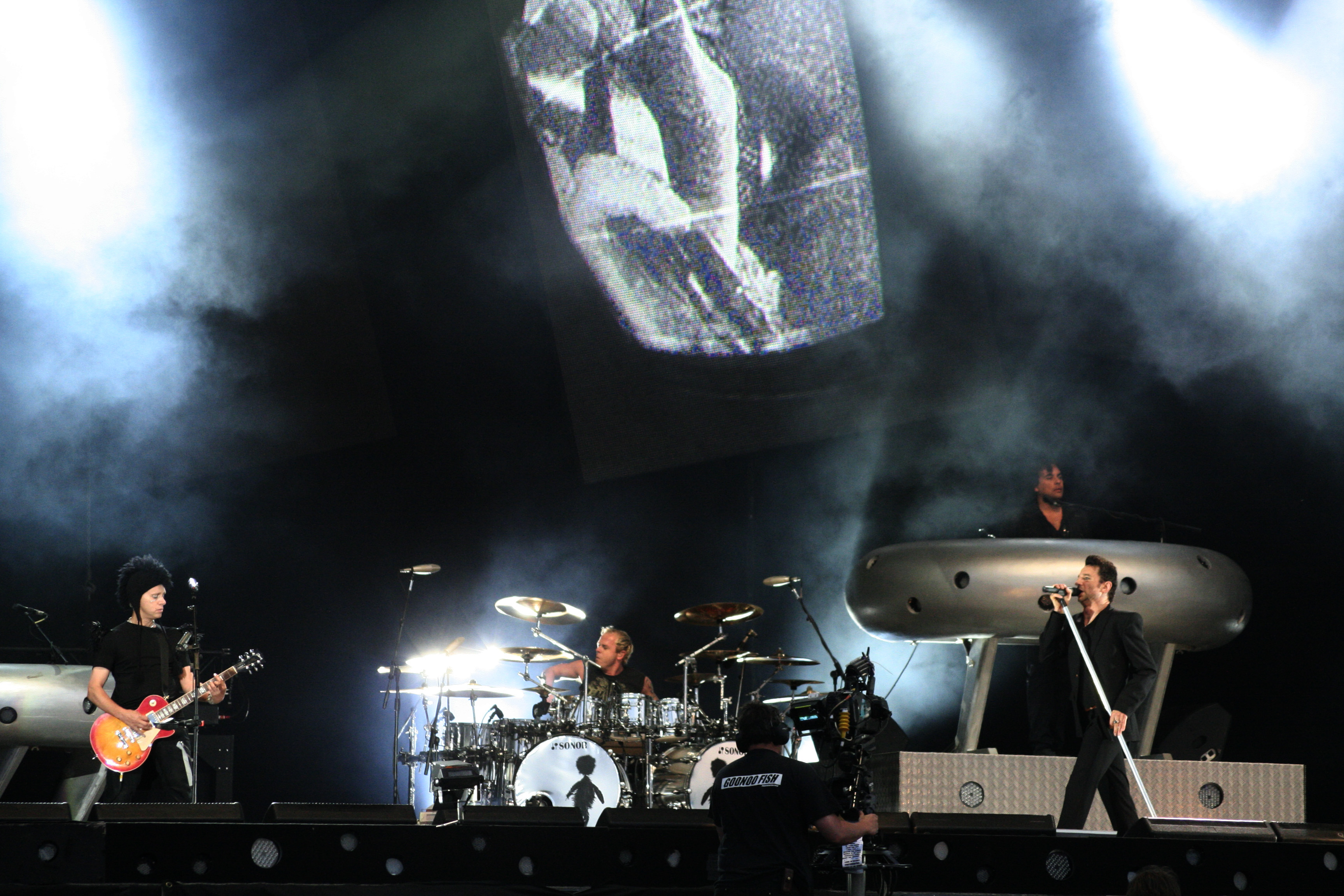 Depeche Mode live at the O2 Wireless Festival in 2006